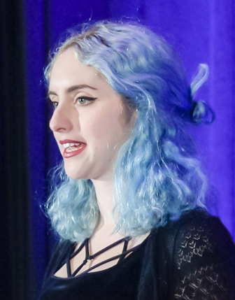 The Narrative Innovation Showcase Matthew Weise | Game Designer and Game Writer, Fiction Control Clara Fernandez Vara | Associate Arts Professor, NYU Katie Chironis | Team Lead, Writer, Golden Glitch Studios Nina Freeman | Level Designer, Fullbright Aaron Reed | Storytelling Guru, Independent Richard Rouse III | Director/Designer/Writer, Paranoid Productions Samantha Gorman | Game Designer/Co-Founder, Tender Claws Location: Room 3016, West Hall Date: Monday, March 14 Time: 10:00am - 11:00am